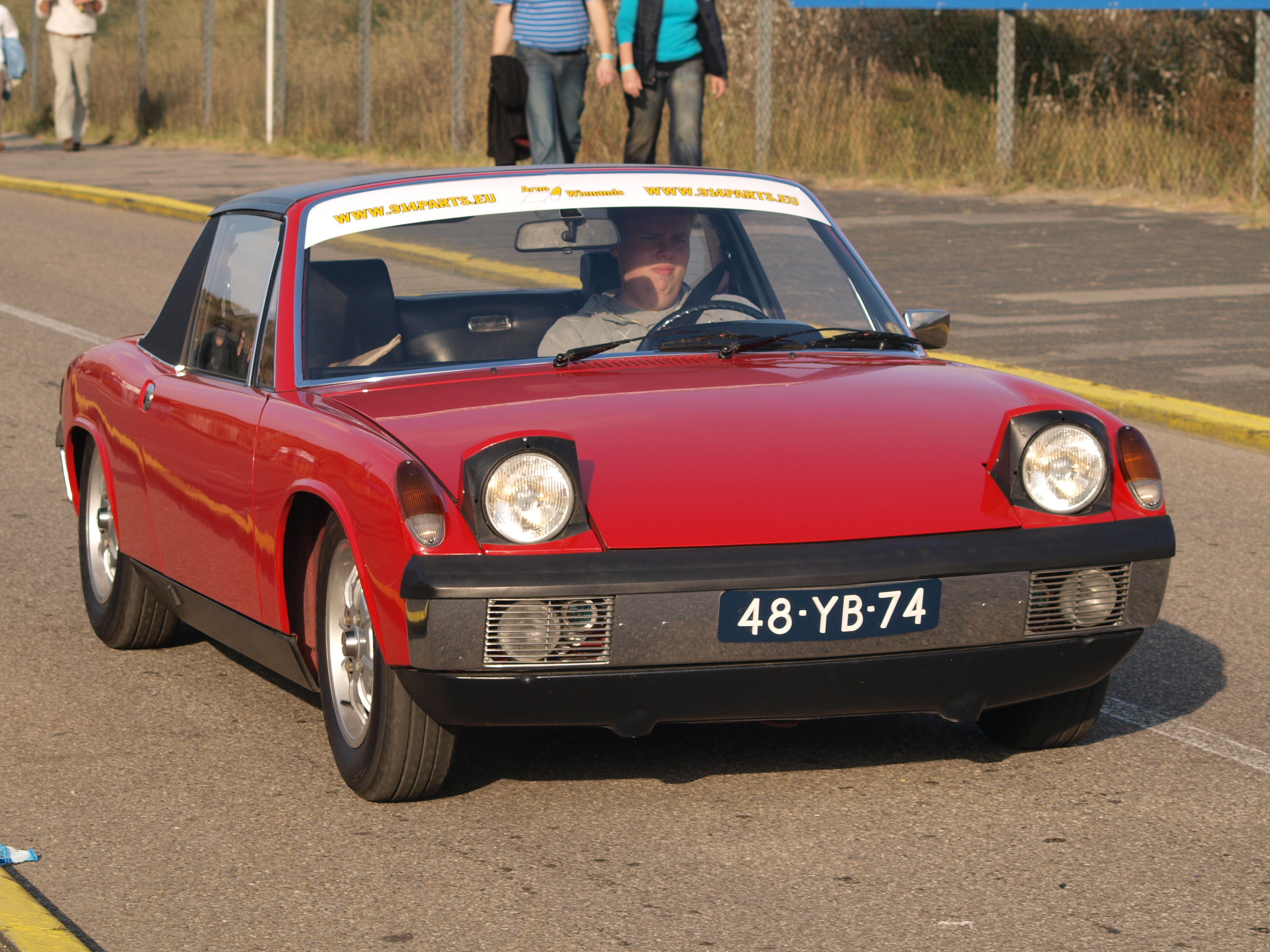 Photographed at the Nationaal Oldtimer Festival Zandvoort 2009, The Netherlands. OLYMPUS DIGITAL CAMERA